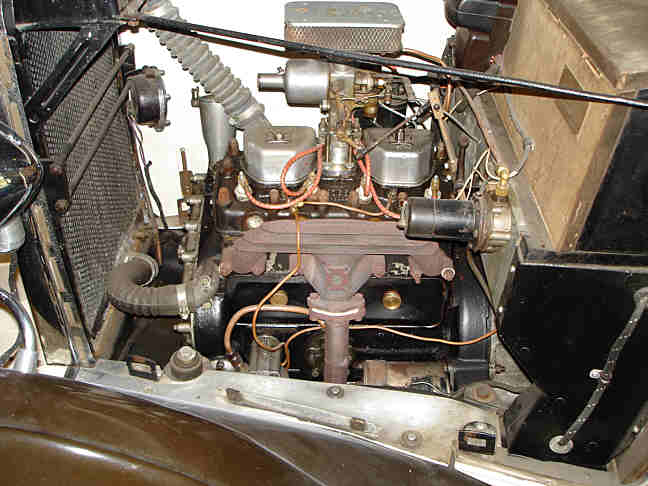 Coventry Climax type OC engine installed in a Crossley 10hp car